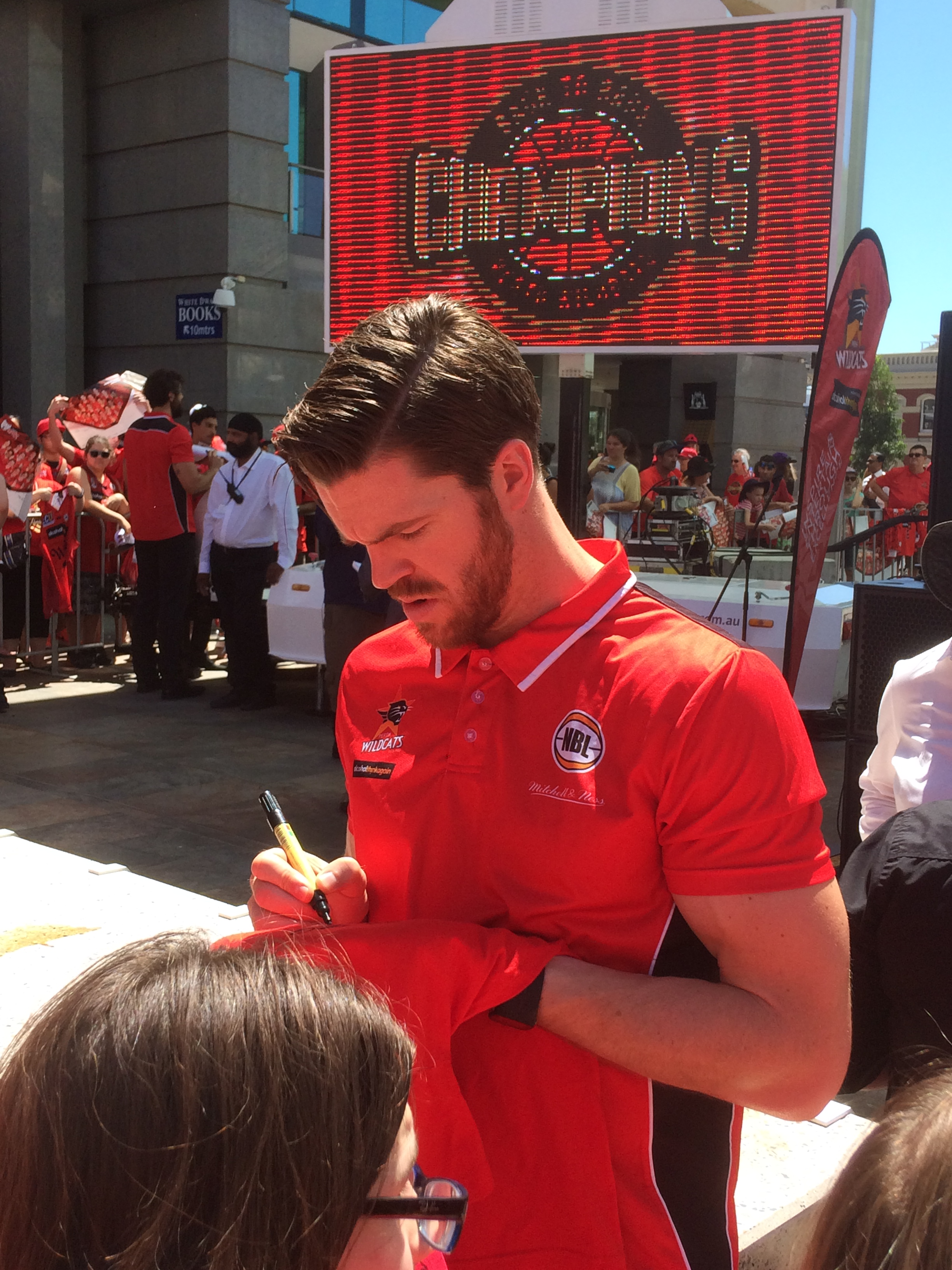 Lucas Walker at the Perth Wildcats' 2017 championship celebration